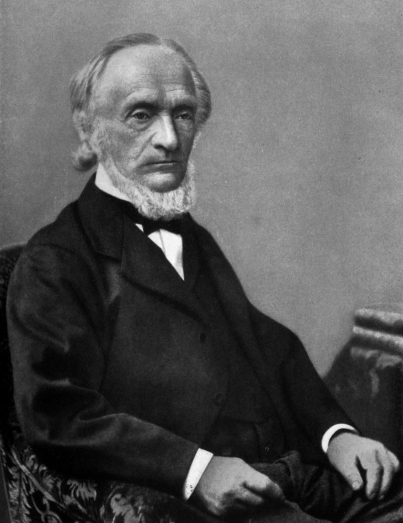 A portrait of the Swiss 19th century geometer Ludwig Schläfli.